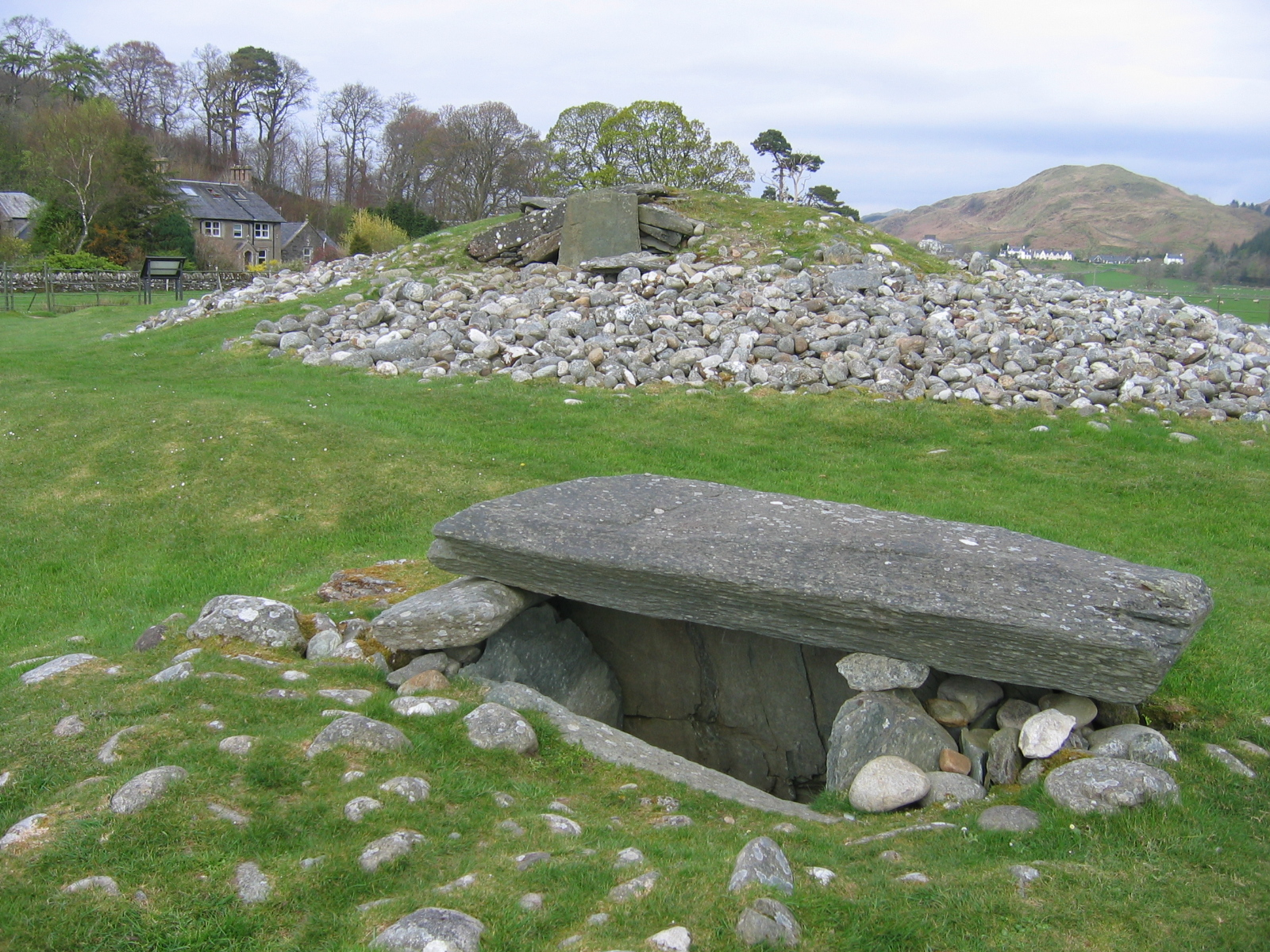 Cist at Nether Largie South cairn, Kilmartin Glen, Scotland.